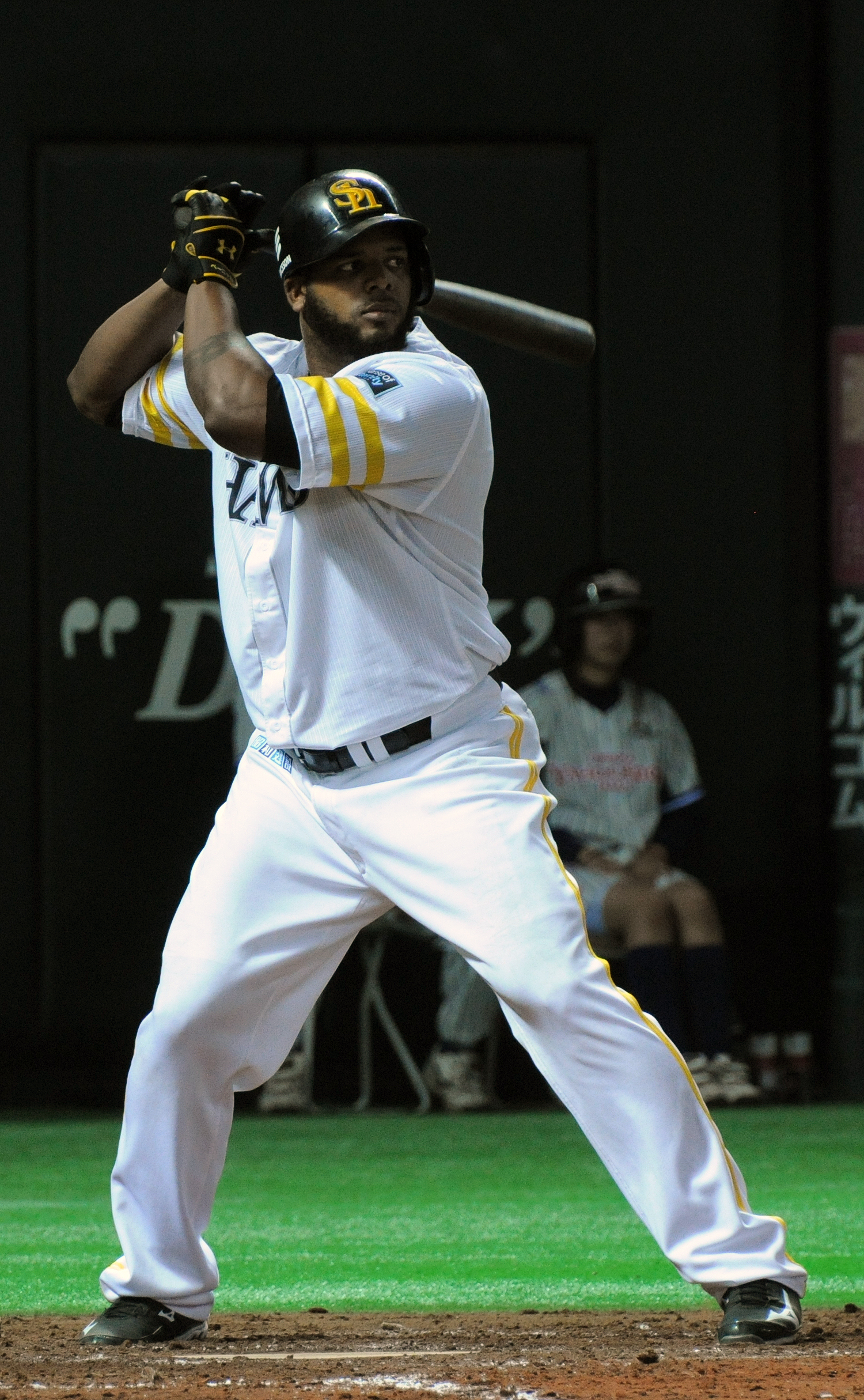 Wily Mo Peña, outfielder of the Fukuoka SoftBank Hawks, at Fukuoka Dome.